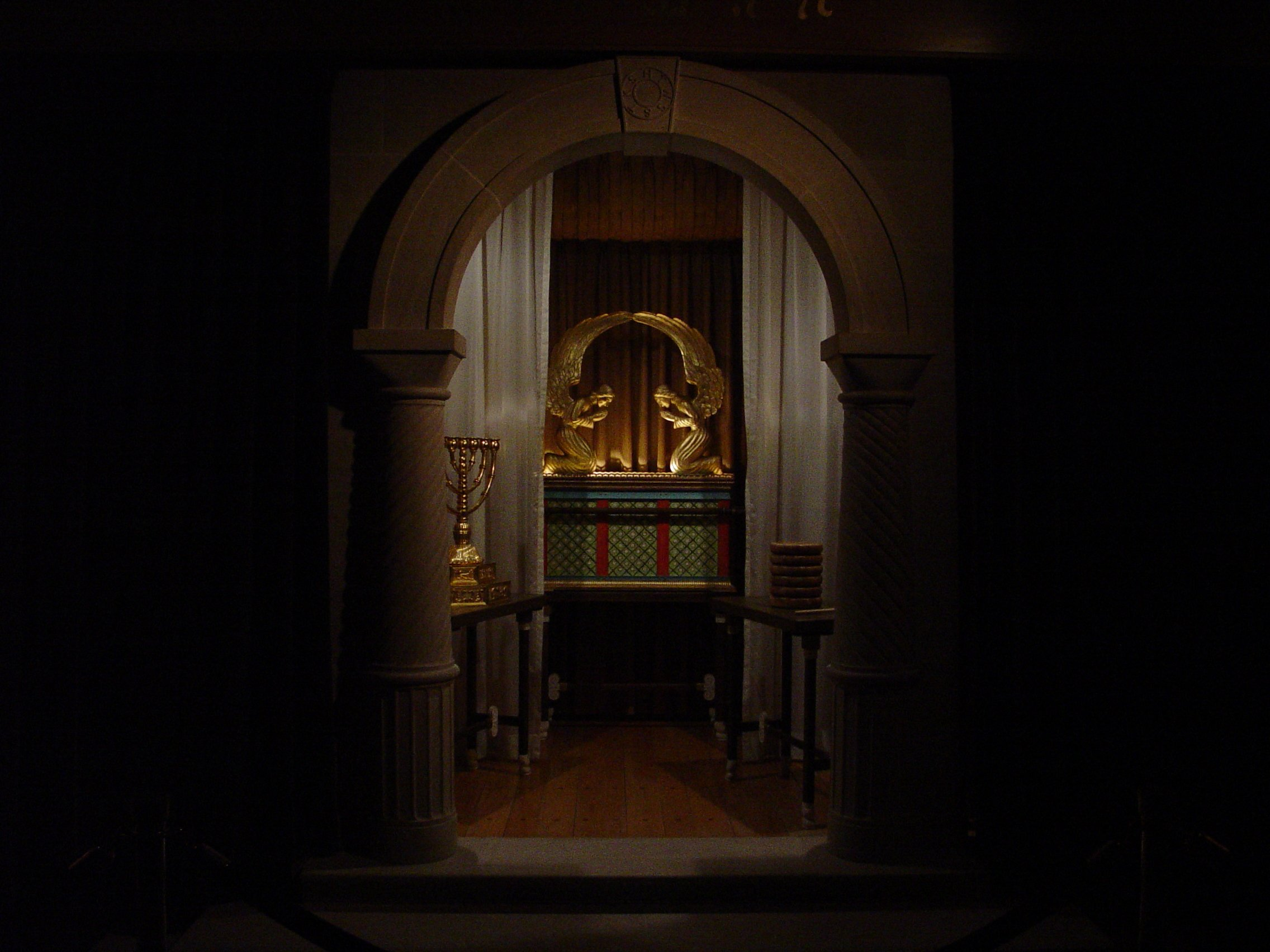 Replica of the Ark of the Covenant in the Royal Arch Room of the George Washington Masonic National Memorial. Photo by Ben Schumin on March 8, 2003.